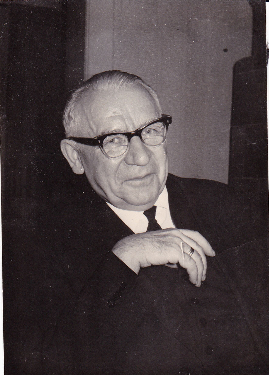 The german scientist and mining engineer Otto Fleischer, Christmas 1967.